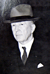 Sam D. McReynolds, US Representative from Tennessee